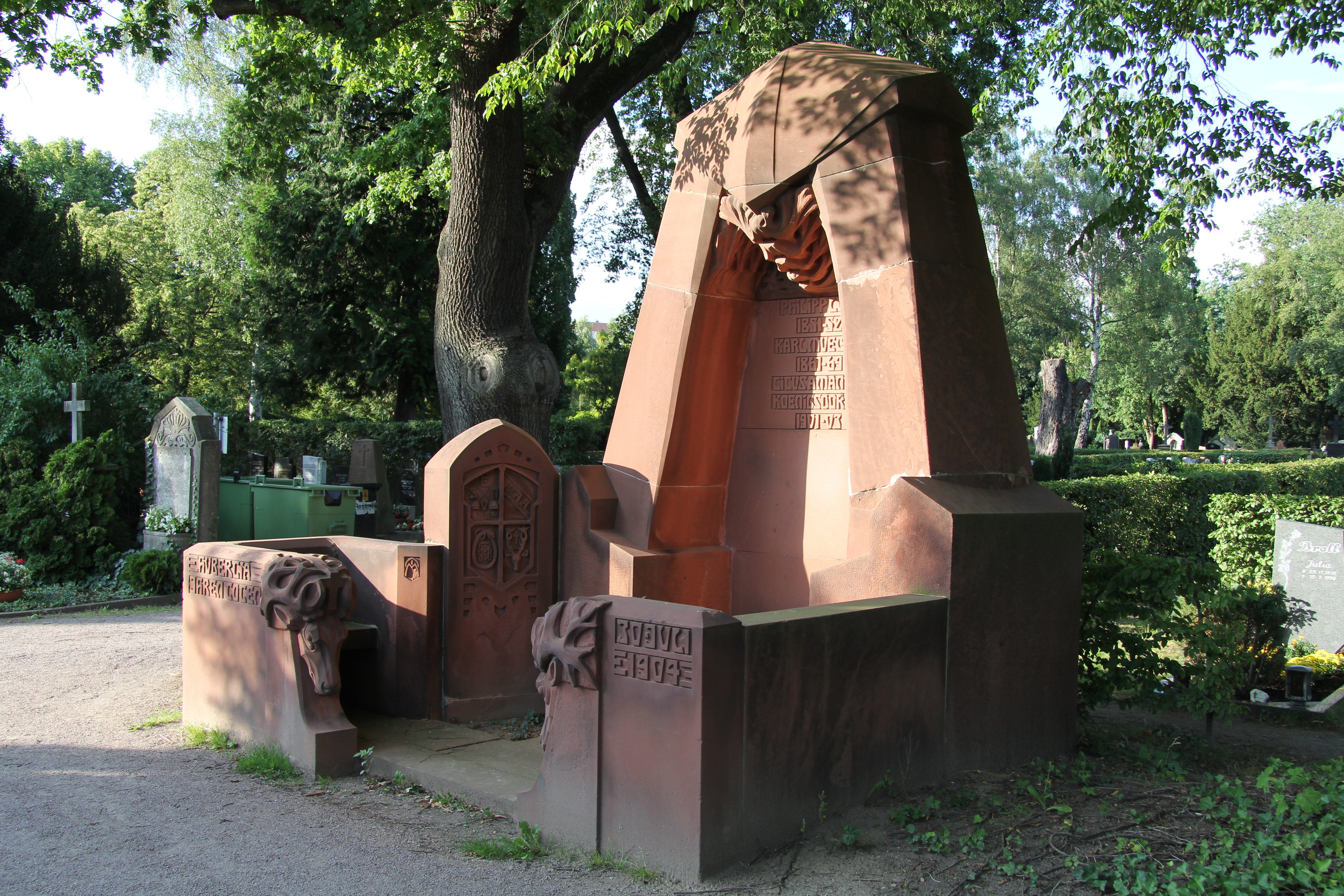 Grave monument of student fraternity Corps Hubertia on Aschaffenburg (Bavaria/Germany) central cemetery